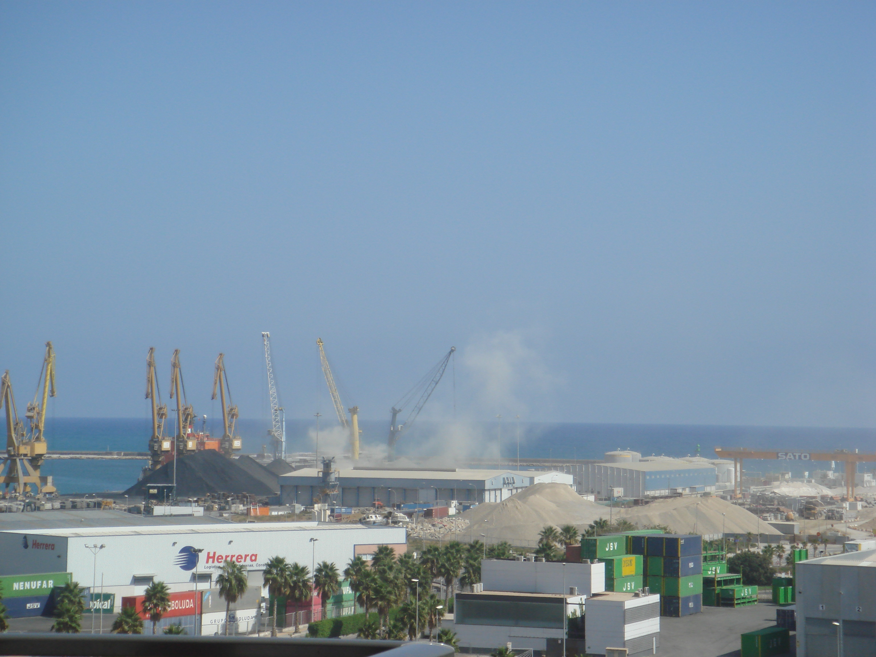 Nubes de clinker cement dust as it is unloaded in Alicante Port